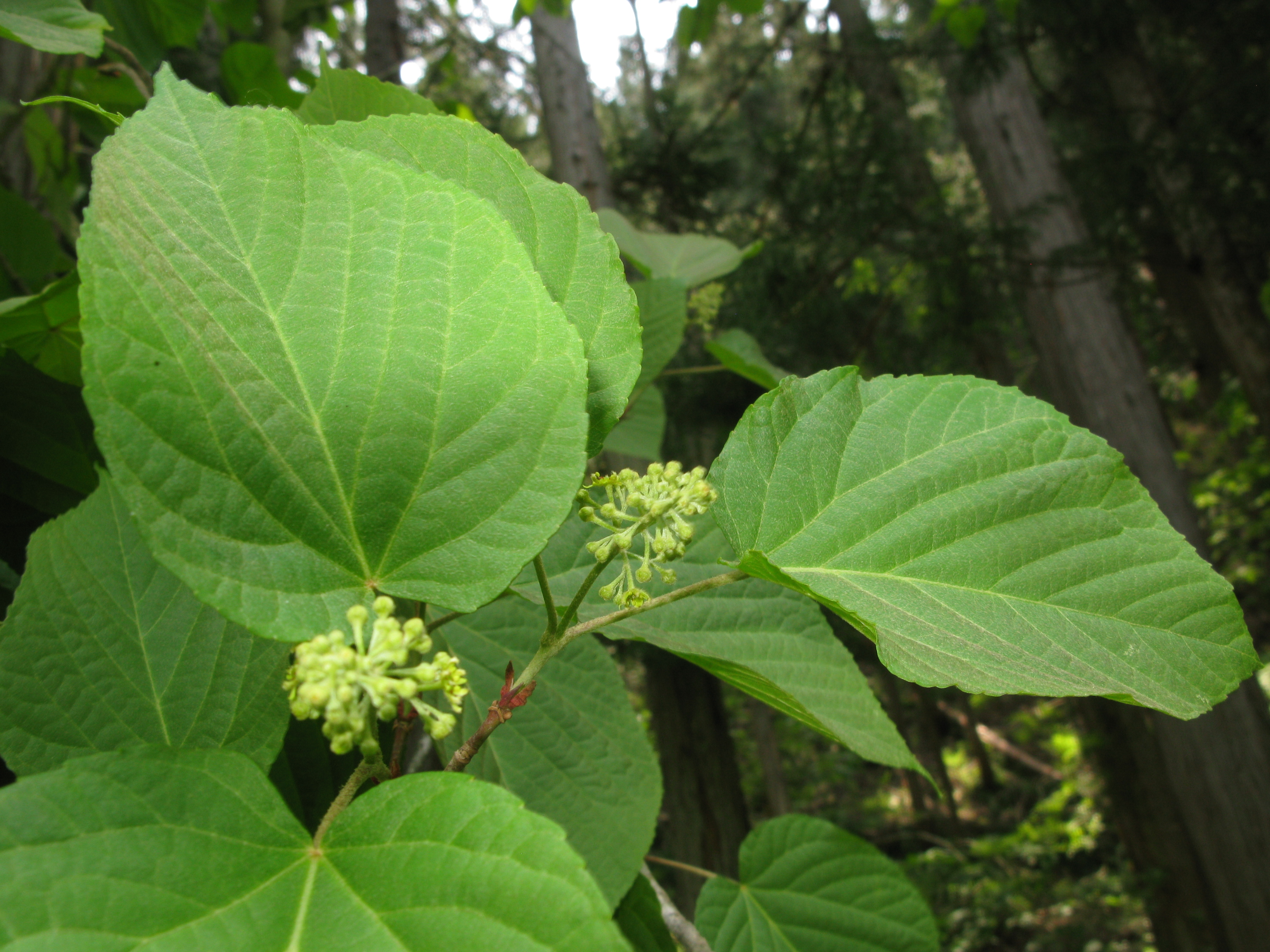 Acer distylum,Aizu area, Fukushima pref., Japan